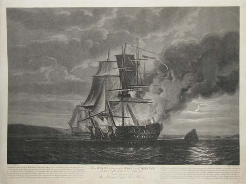 The Action between the Mars and Hercule on the Night of the 21st. April 1798. To the Memory of The Intrepid Captn. Alexr. Hood